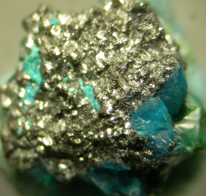 Klockmannite and Chalcomenite Locality: Sierra de Umango, La Rioja, Argentina Original description: Lustrous metallic Klockmannite (possible intergrown with some Eucairite) and blue Chalcomenite. Field of view 5 mm.